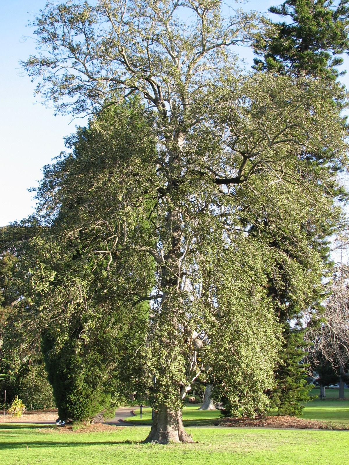 Taken by myself some time in August 2006, at the Royal Botanic Gardens, Sydney